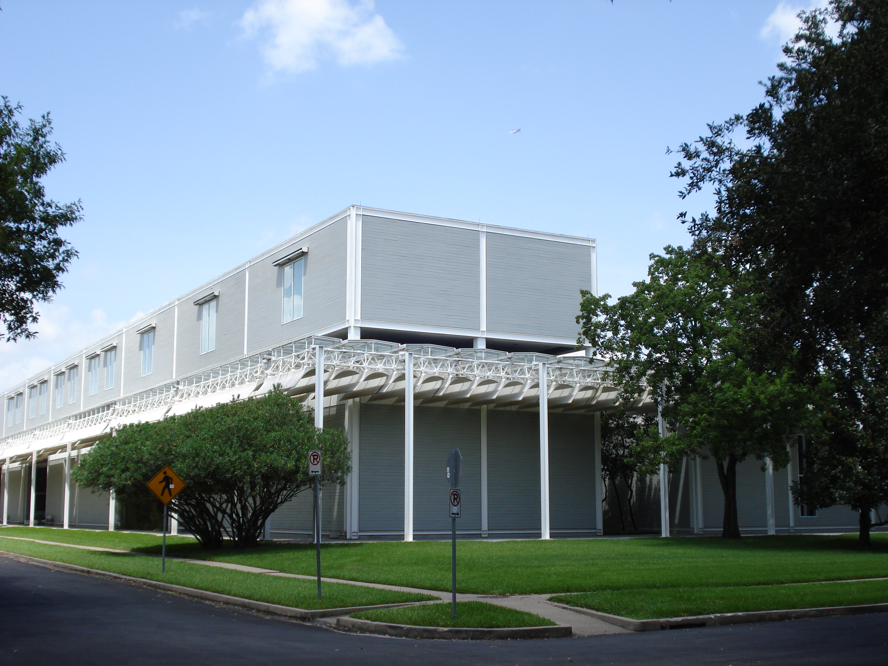 Photo by Argos'Dad